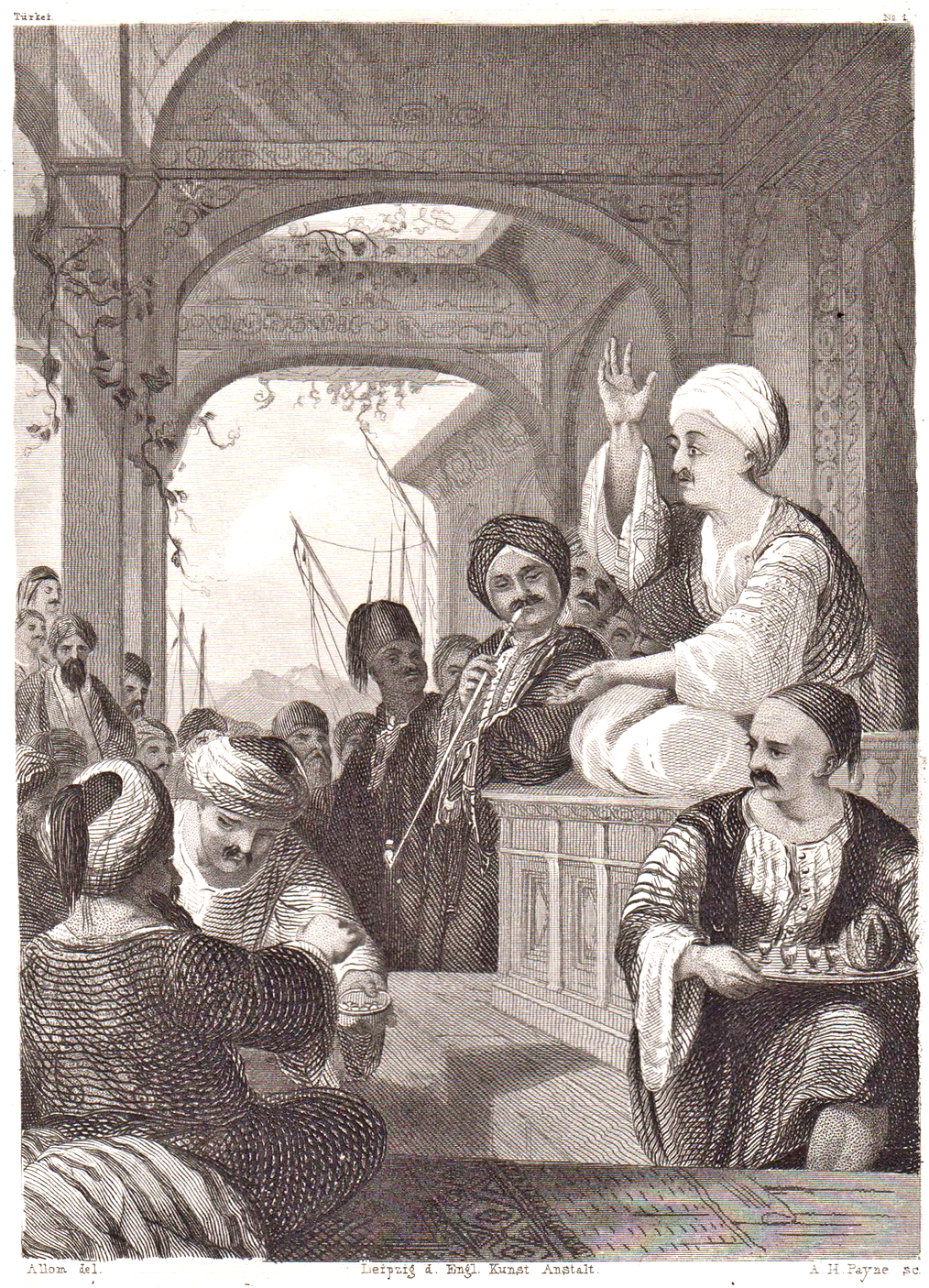 the original image is dated before 20th century. The brochure is a Turkish government publication.